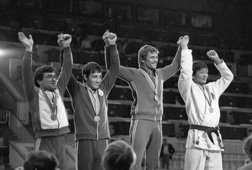 “Soviet sportsman Nikolai Solodukhin, the 22nd Olympic judo champion, having won the competition”. Soviet sportsman Nikolai Solodukhin (second right), the 22nd Olympic judo champion, having won the competition.